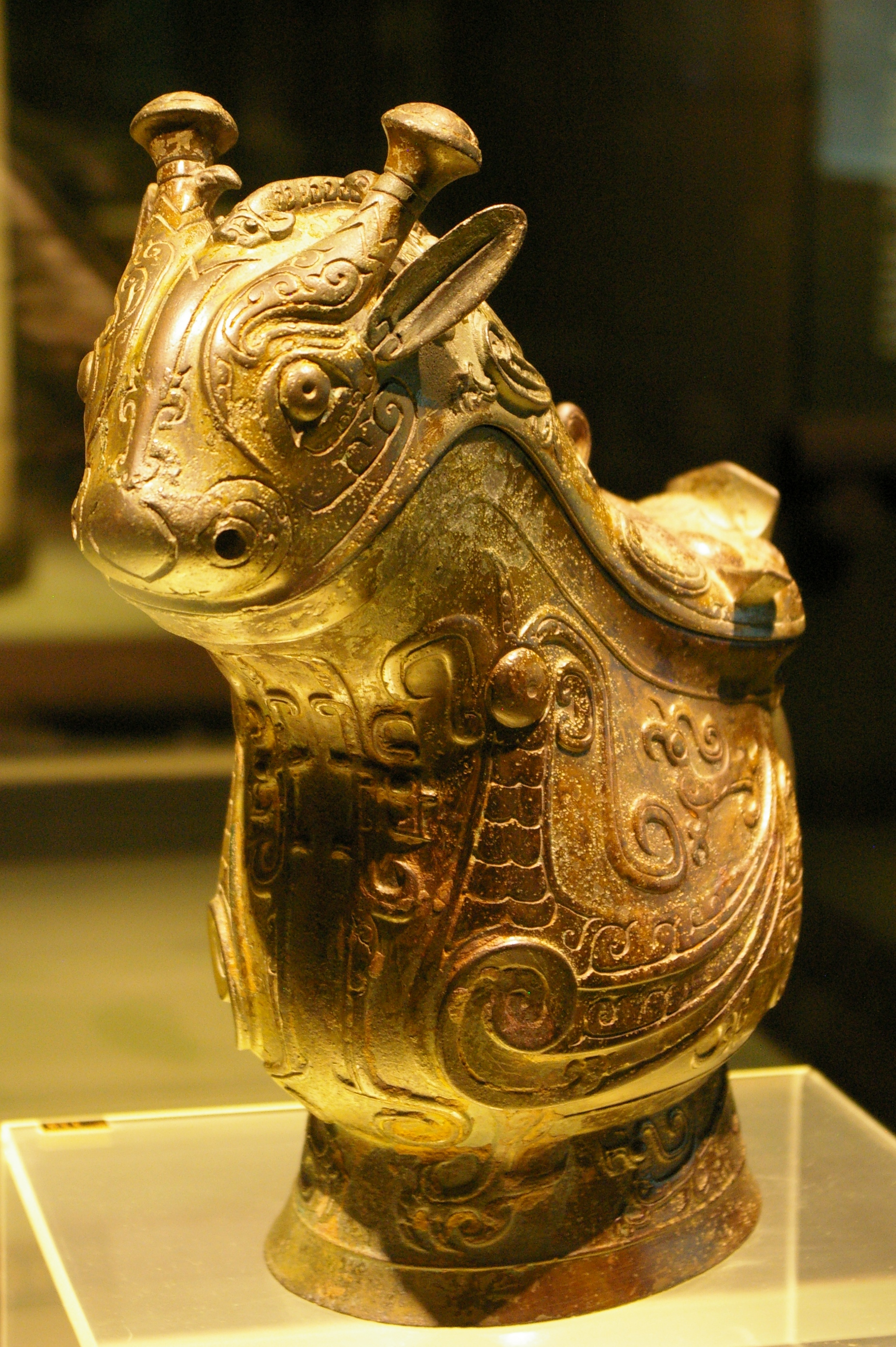 Gong Fu Yi. A bronze animalistic Chinese gong vessel, 13-11 century B.C., late Shang Dynasty, Shanghai Museum.The head has rabbit ears and giraffe horns, and the shine looks like a small dragon in high relief. The back of the cover has the shape of the head of an ox, like the handle that has the same pattern of head of ox. The body has phoenix patterns, and the oval base shows claws of phoenix patterns. Written in chinese : "Made by Fu Yi". Height: 29.5cm Length: 31.5cm Weight: 4.84kg